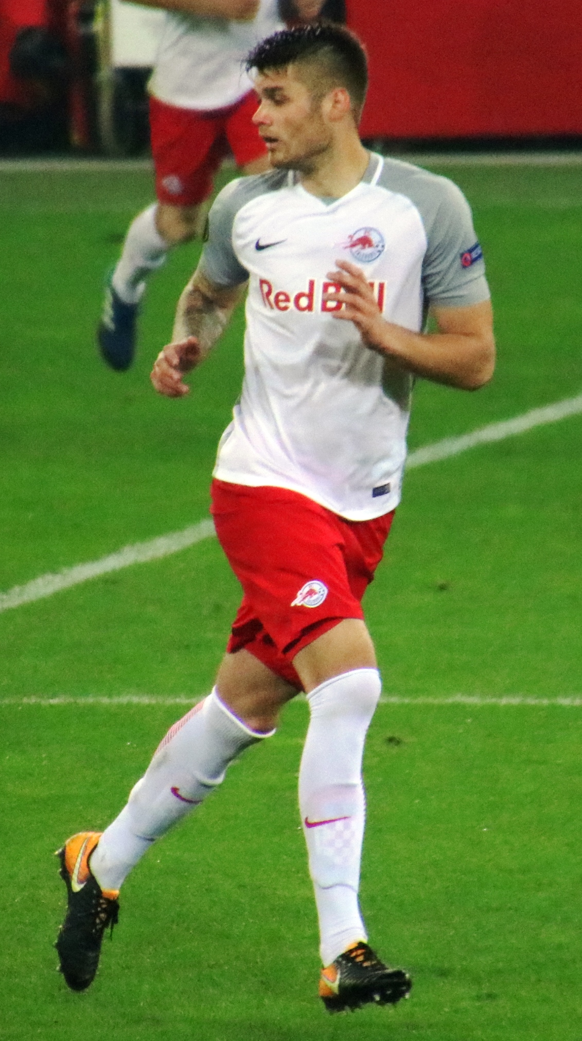 UEFA Euroleague semifinal 2nd leg